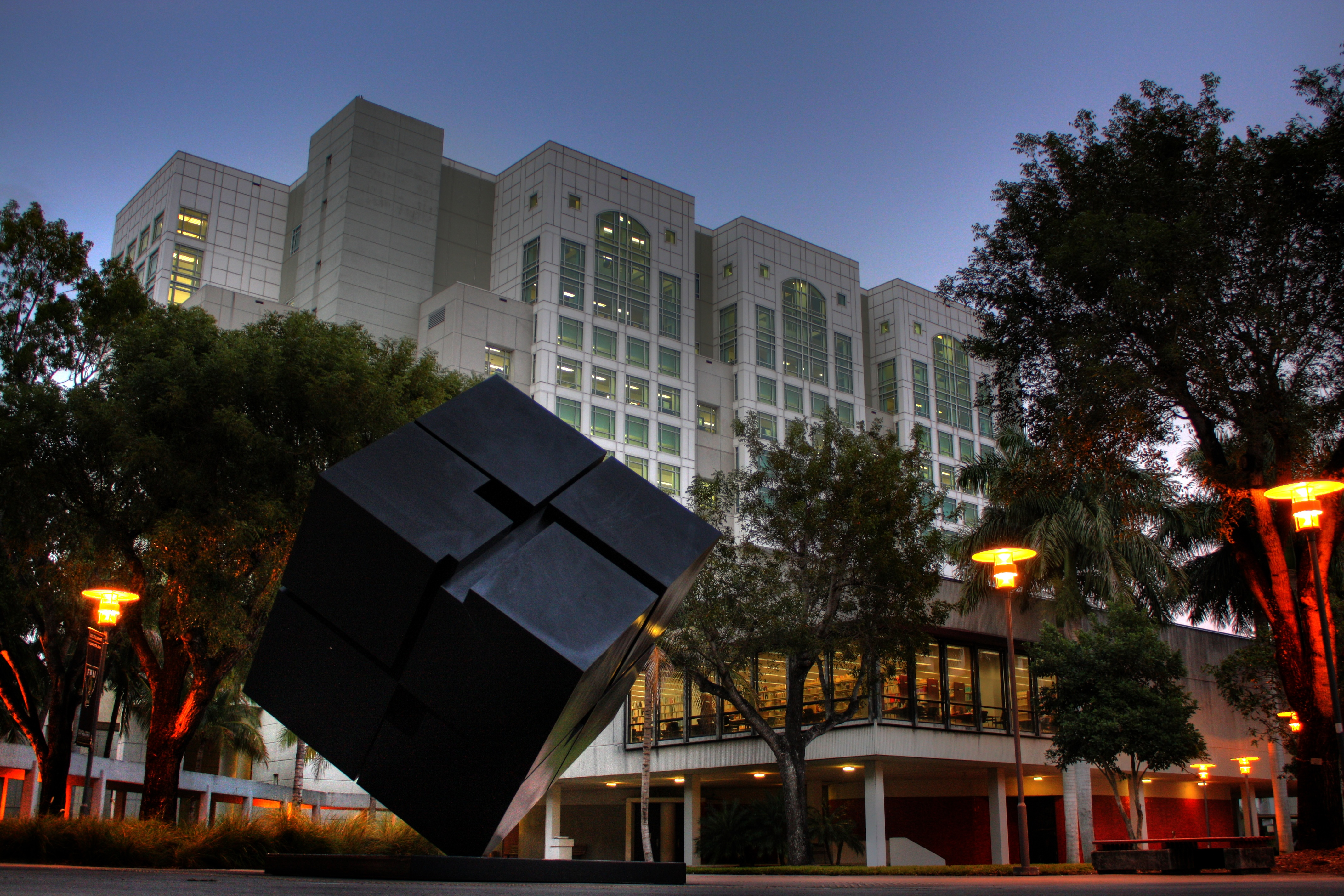 FIU Cube sculpture